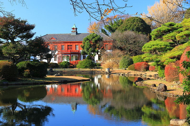 Koishikawa Botanical Japanese Garden Tokyo